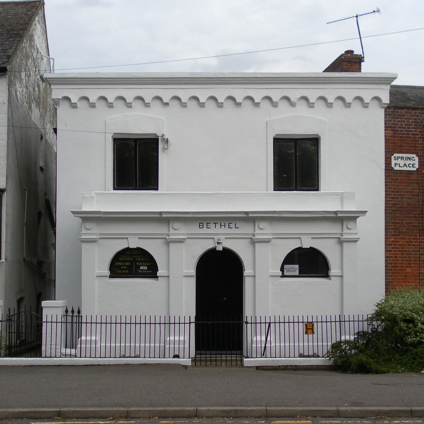 Bethel Strict Baptist Chapel, Rye, District of Rother, England.